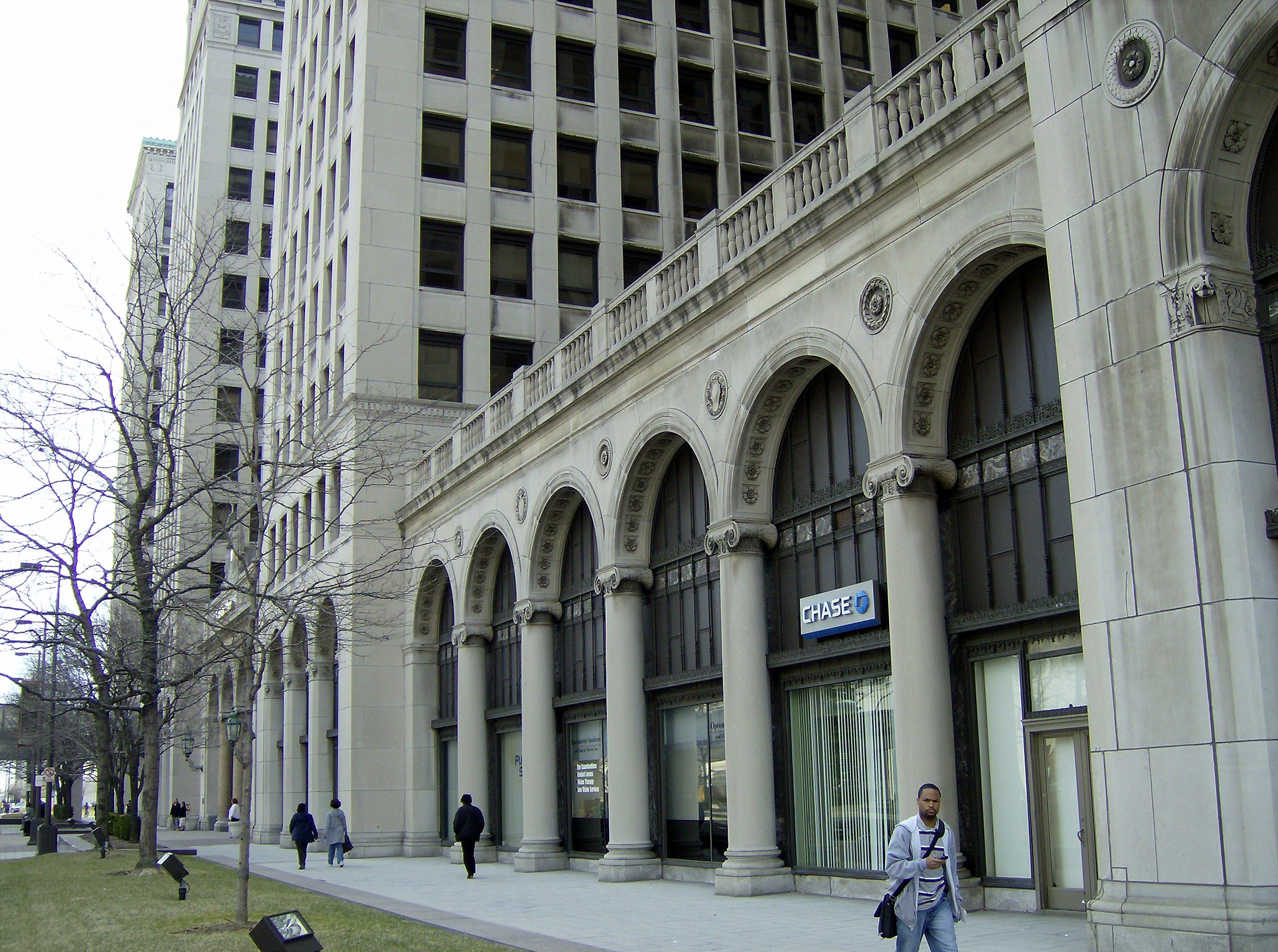 Cadillac Place